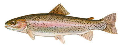 Rainbow trout